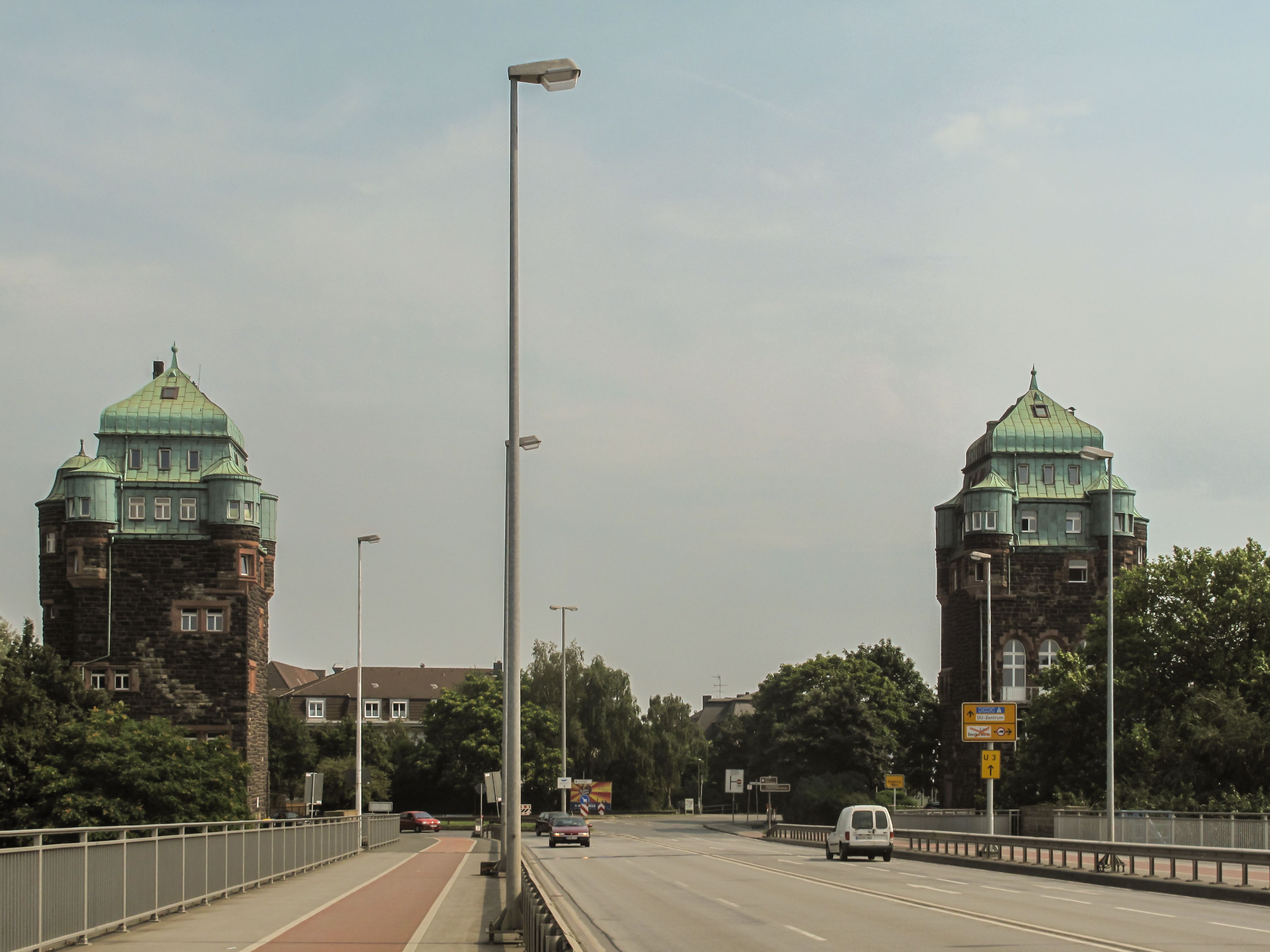 Ruhrort, two towerdson the bridge across Ruhr